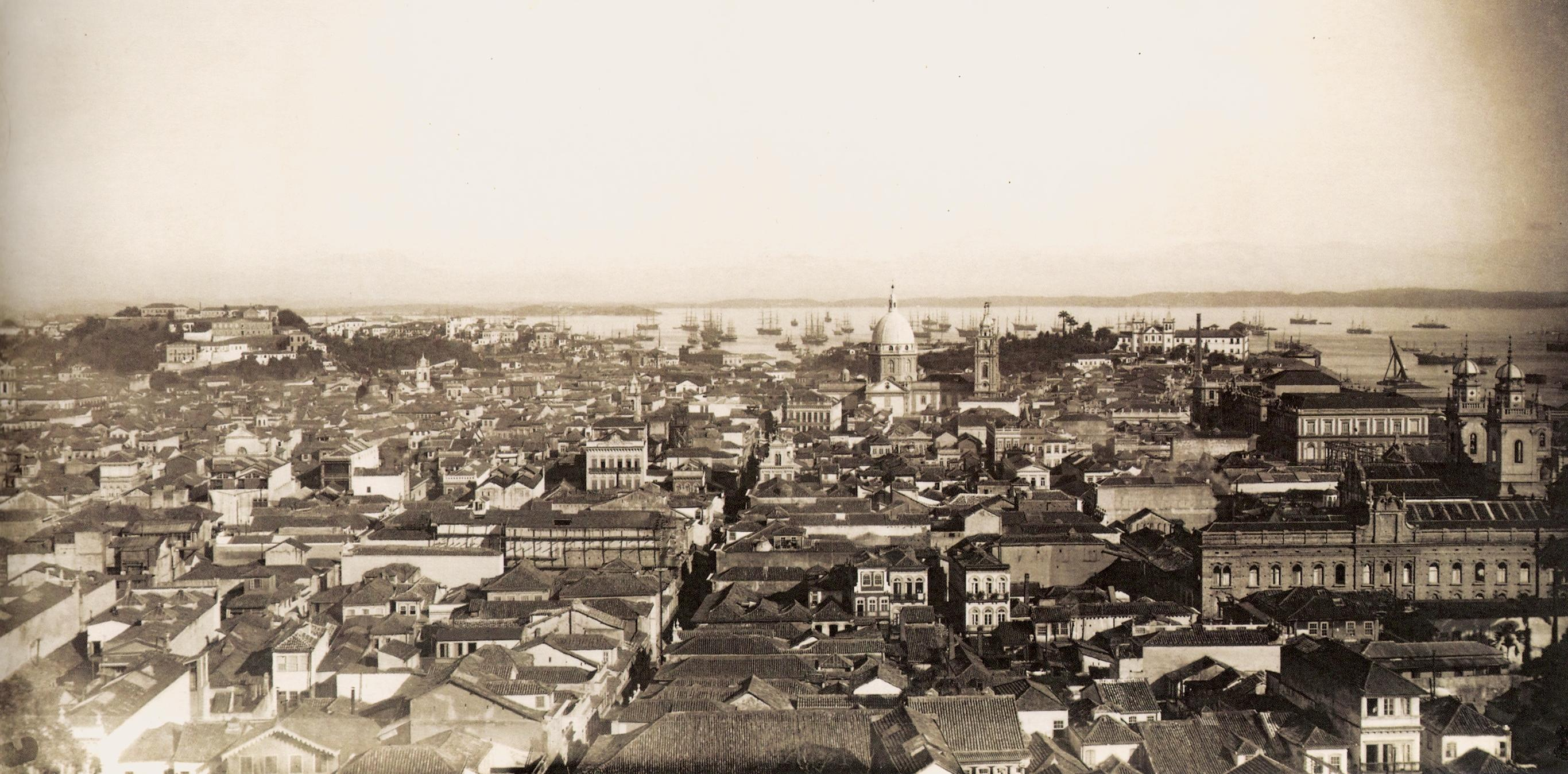 City of Rio de Janeiro, 1889.